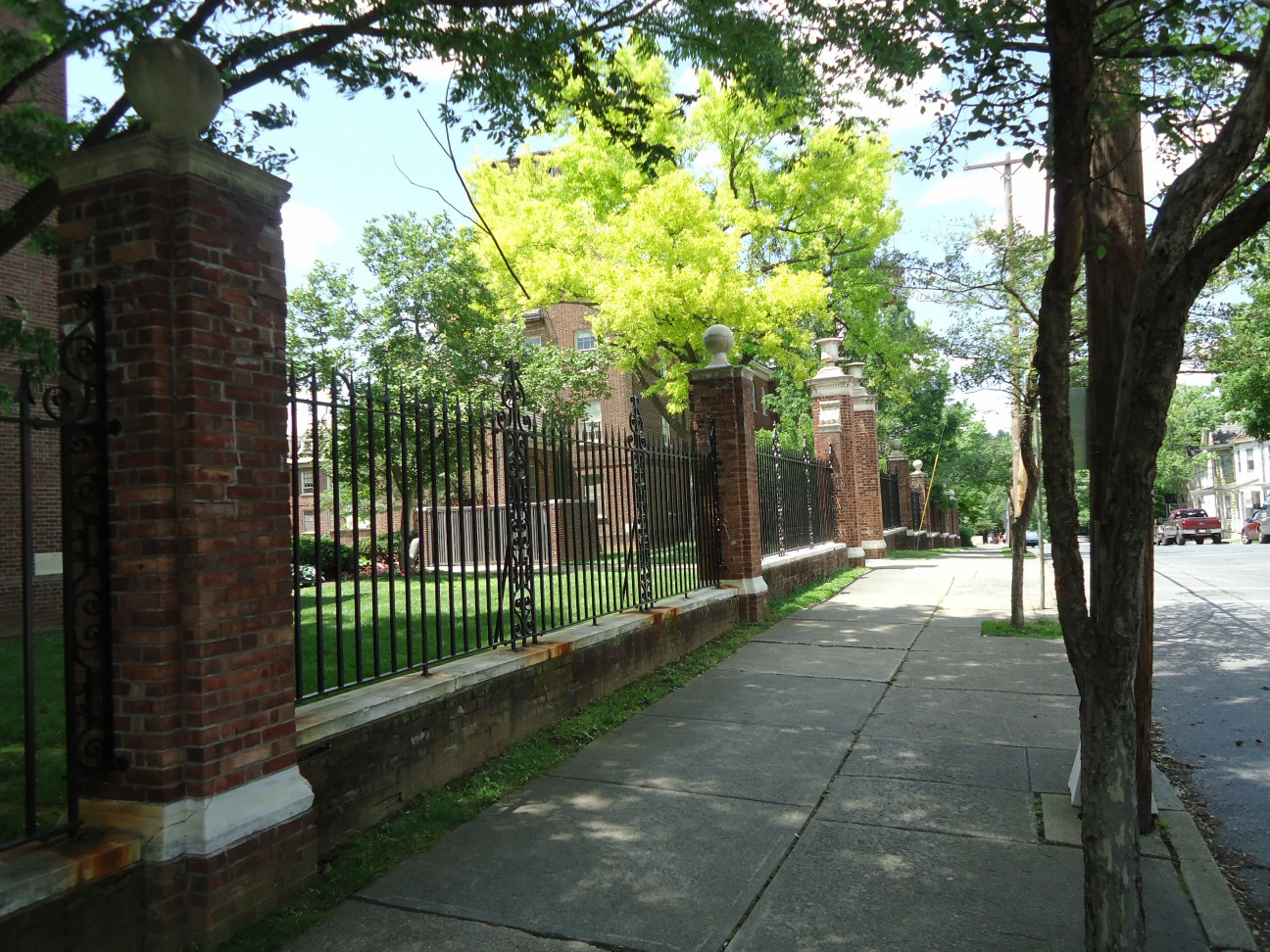 A photo from a campus tour of Lafayette College in Easton, Pennsylvania, on May 31, 2012 (correct date; 2011-06-01 is incorrect).